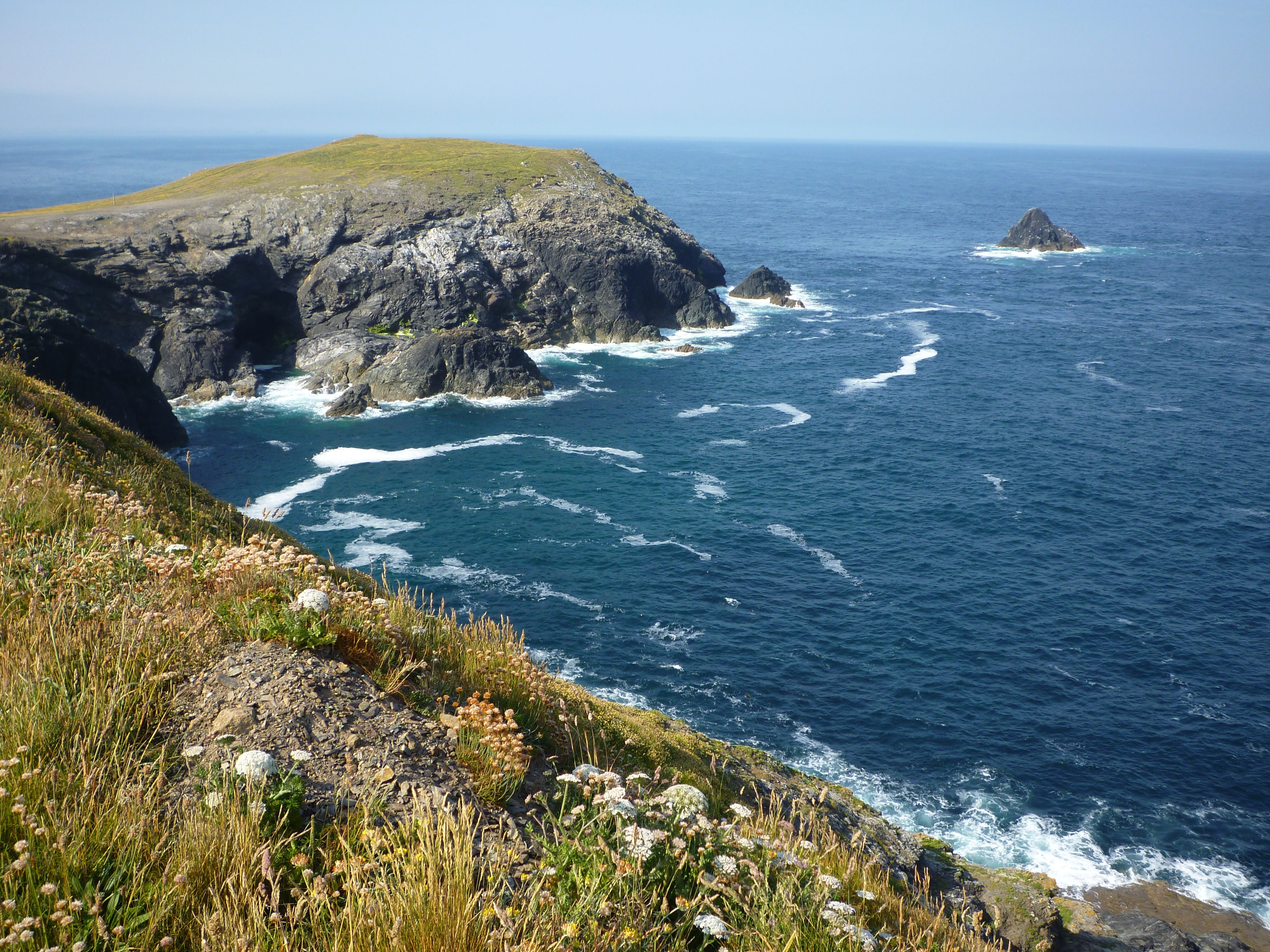 Padstow - Coastline Trevose Head, Bristol Channel.jpg